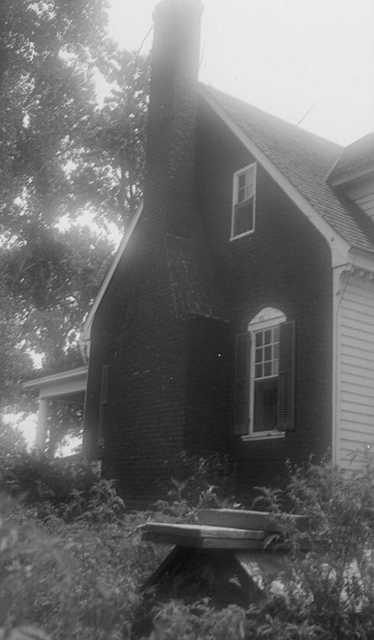 Stratton Manor, State Route 642 vicinity, Cheriton vicinity (Northampton County, Virginia) cropped HABS VA,66-CAPCHA,1-2 This file comes from the Historic American Buildings Survey (HABS), Historic American Engineering Record (HAER) or Historic American Landscapes Survey (HALS). These are programs of the National Park Service established for the purpose of documenting historic places. Records consist of measured drawings, archival photographs, and written reports. When reusing please credit: Library of Congress, Prints & Photographs Division, VA-545 This tag does not indicate the copyright status of the attached work. A normal copyright tag is still required. See Commons:Licensing. This work is in the public domain in the United States because it is a work prepared by an officer or employee of the United States Government as part of that person’s official duties under the terms of Title 17, Chapter 1, Section 105 of the US Code. Note: This only applies to original works of the Federal Government and not to the work of any individual U.S. state, territory, commonwealth, county, municipality, or any other subdivision. This template also does not apply to postage stamp designs published by the United States Postal Service since 1978. (See § 313.6(C)(1) of Compendium of U.S. Copyright Office Practices). It also does not apply to certain US coins; see The US Mint Terms of Use. This file has been identified as being free of known restrictions under copyright law, including all related and neighboring rights.